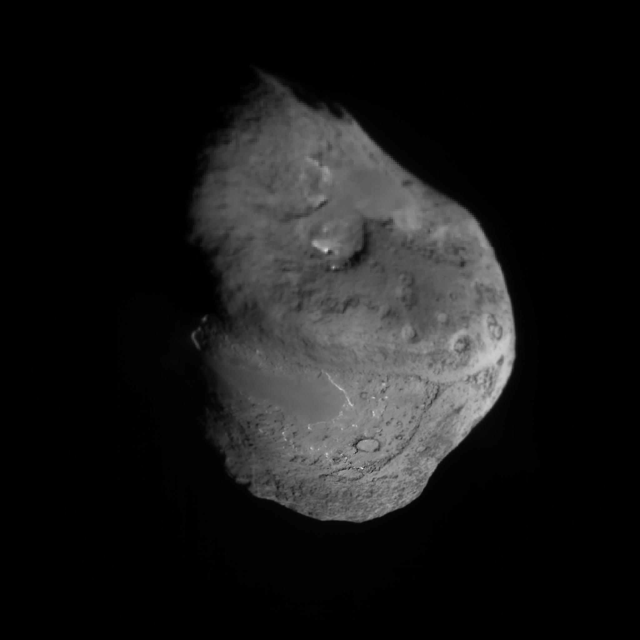 This composite image was built up from scaling all images to 5 meters/pixel, and aligning images to fixed points. Each image at closer range, replaced equivalent locations observed at a greater distance. The impact site has the highest resolution because images were acquired until about 4 sec from impact or a few meters from the surface.